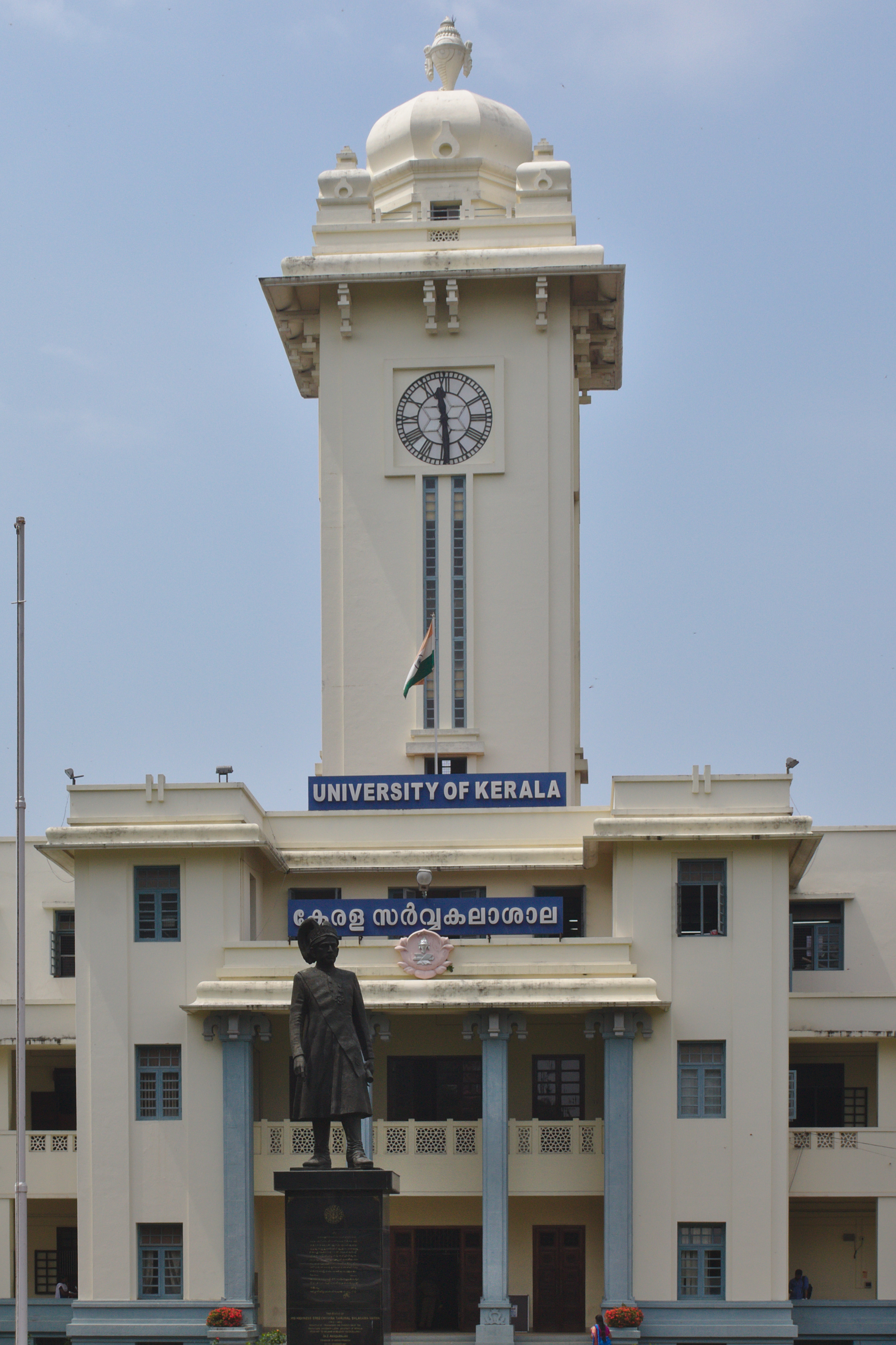 Statue of Chitra Tirunal Balarama Varma in front of University of Kerala